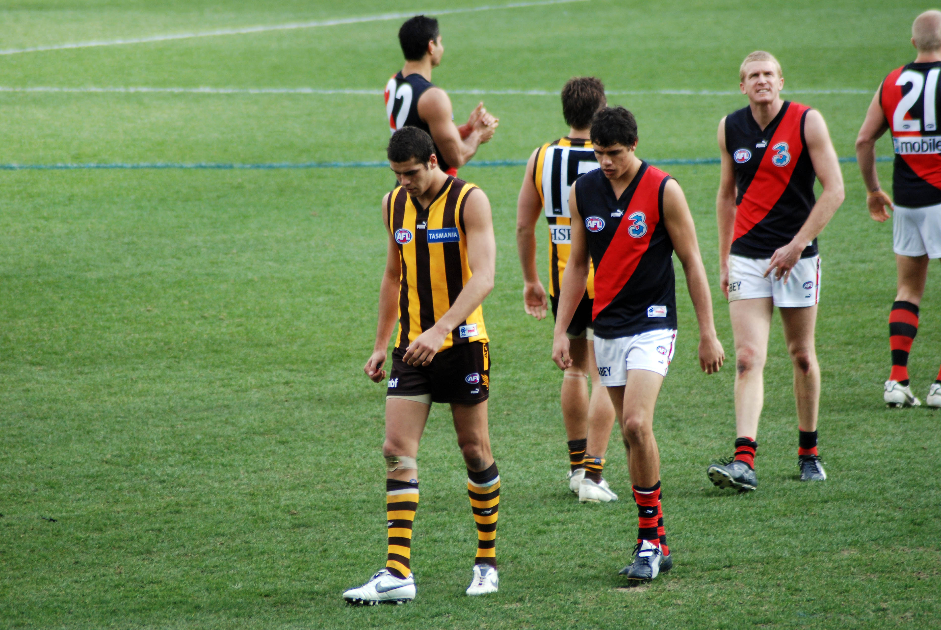 Lance Franklin (Hawthorn) accompanied by Paddy Ryder (Essendon), as he walked back to Hawthorn's forward line.